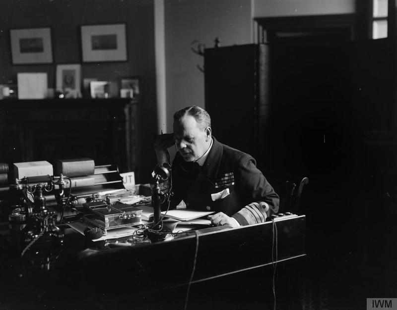 The Royal Navy on the Home Front, 1914-1918 Admiral Sir Rosslyn Wemyss in his office at the Admiralty building, London.